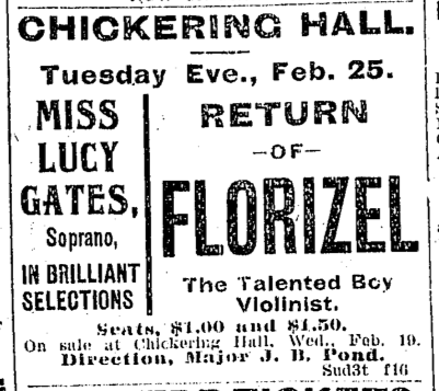 Advertisement for Chickering Hall, Huntington Ave., Boston, Massachusetts, USA